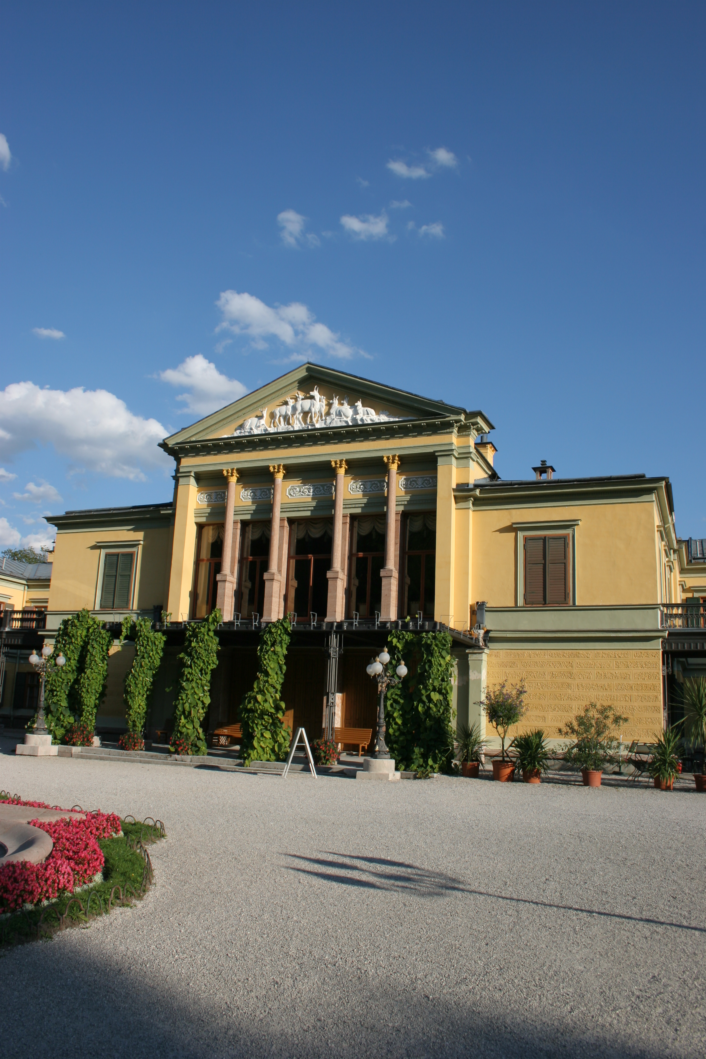 Austria, Bad Ischl, Kaiservilla